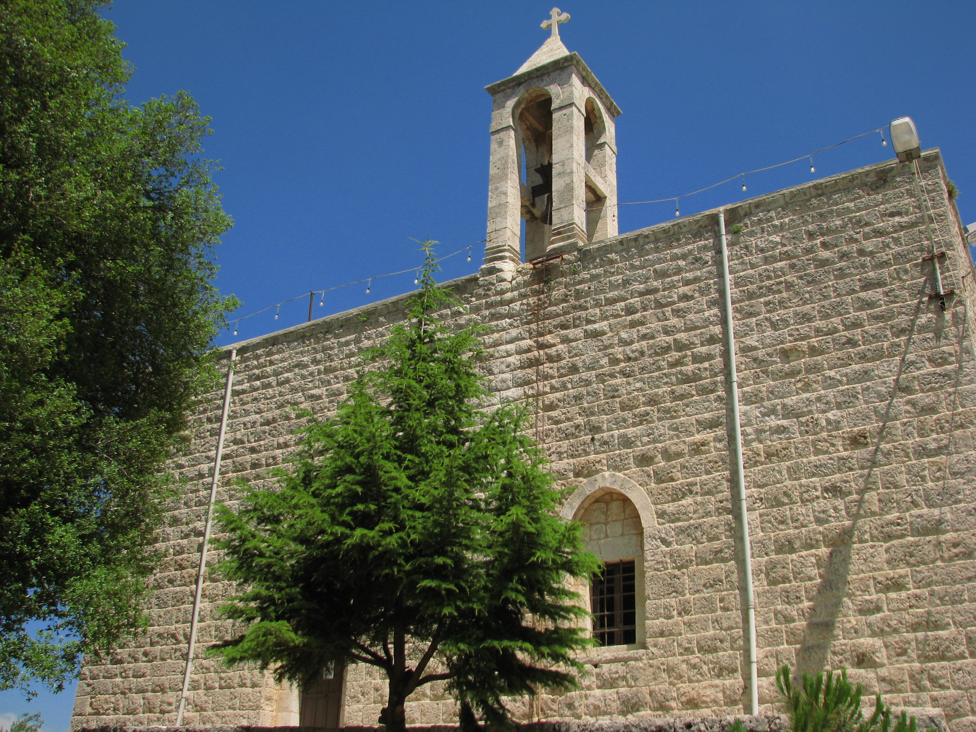 One of many churches of Ajaltoun